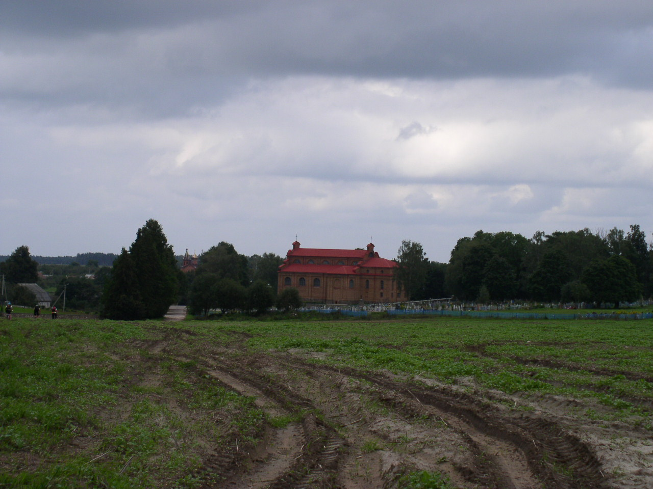 Church of Assumption of the Holy Virgin. Naliboki, Belarus.